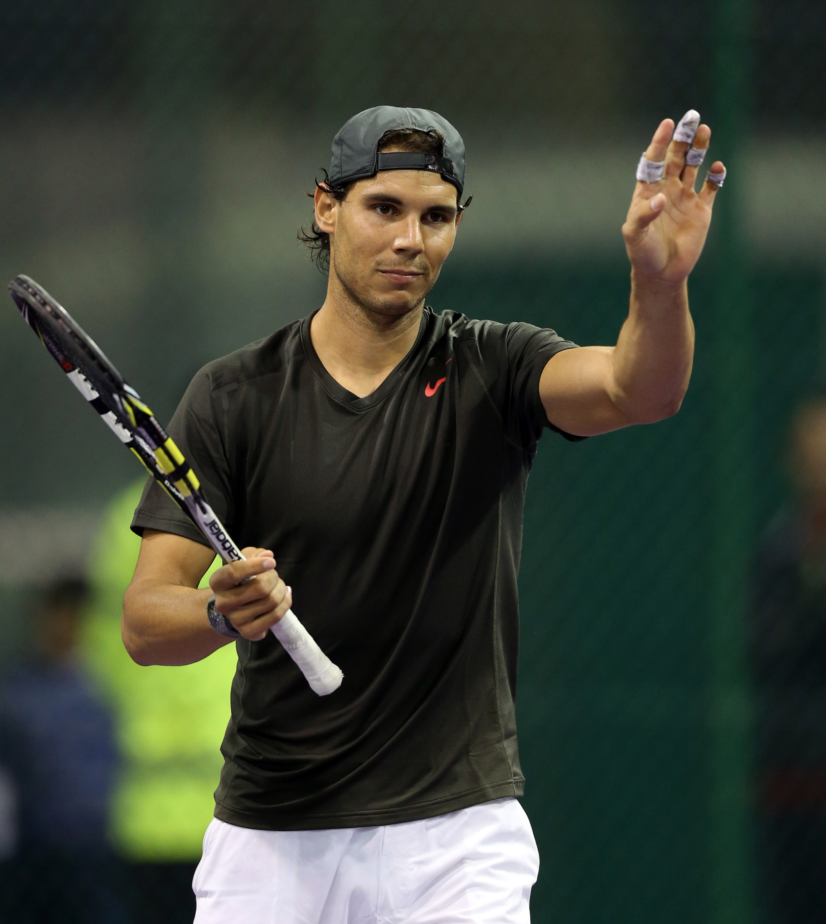 Spaniard Rafael Nadal during a training session in Doha.